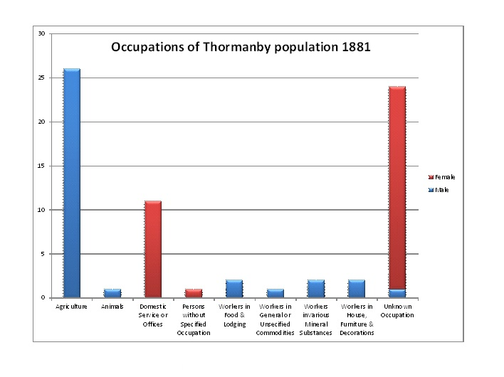 Occupations of Thormanby population by sex in 1881